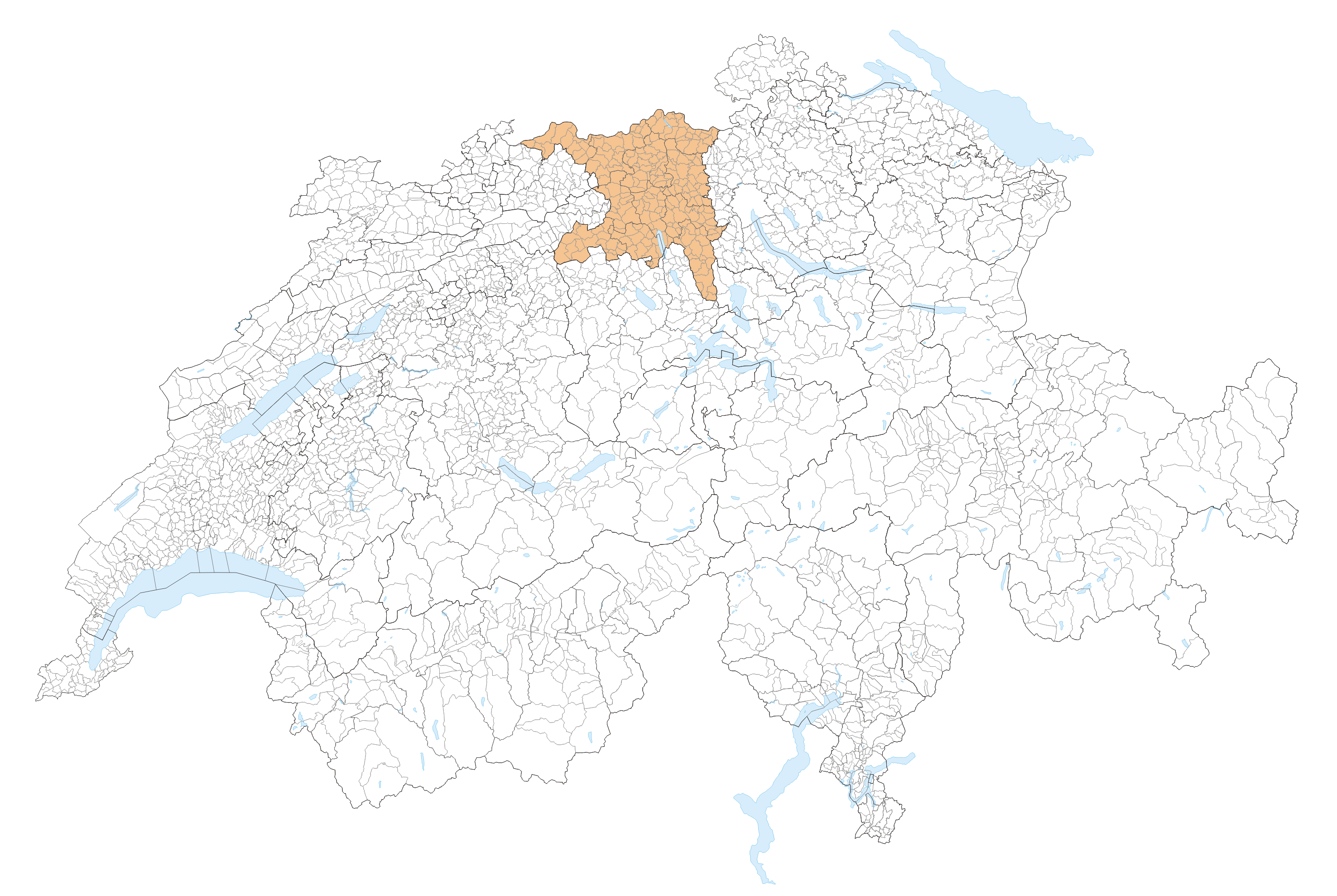 Kanton Aargau